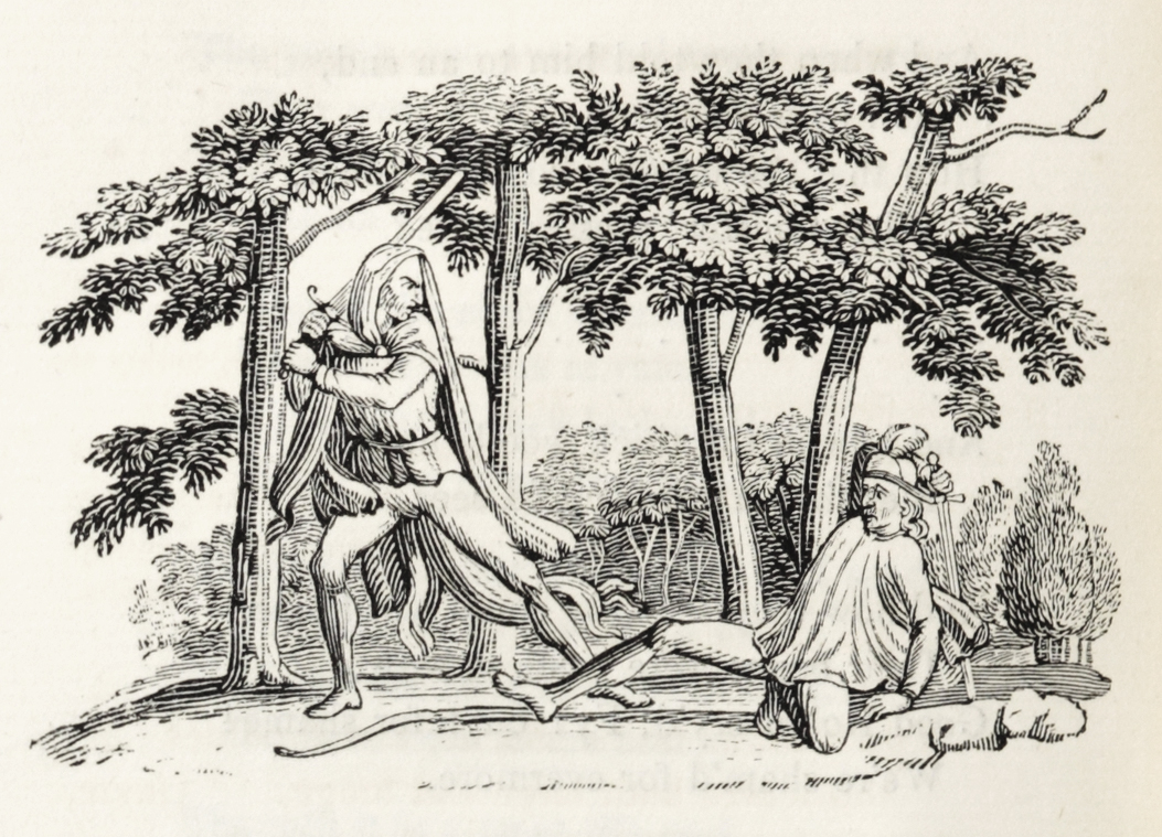 Robin Hood and Guy of Gisborne, Thomas Bewick, 1832, woodcut print, from Robin Hood: a Collection of All the Ancient Poems, Songs, and Ballads, Now Extant Relative to That Celebrated English Outlaw, State Library of New South Wales, DSM/821.04/R/v. 1